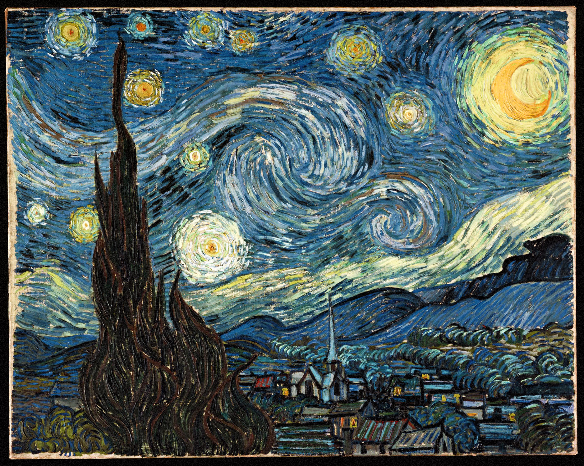 The Starry Night Oil on canvas 73 × 92 cm, 28¾ × 36¼ in.